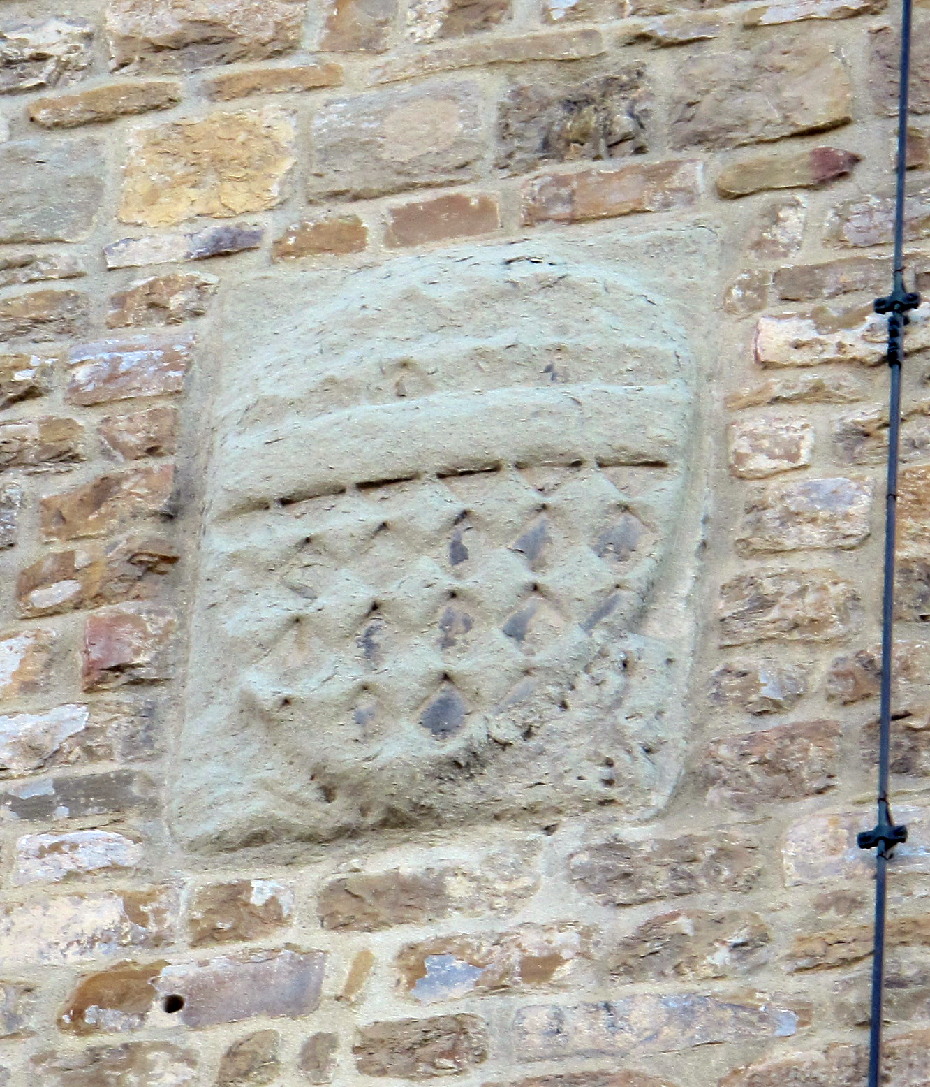 Florence, Italy (see filename)